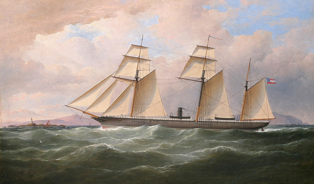 On July 29, 1862, Hull “No. 290” steamed out of the Mersey from the Laird’s Birkenhead Yard and into Civil War history. Soon taking her given name, ALABAMA, the Commerce Raider set out on a tour with devastating results for the American North’s commercial shipping interests the world over. The screw sloop-of-war proved to be a fast, capable ship under the command of Captain Raphael Semmes, capturing or destroying 69 ships in less than two years. Measuring 220'l x 32'b, her barkentine rig and lifting screw propeller could hit 13-plus knots. A superbly detailed portrait of the infamous sloop, this is a very important newly rediscovered fifth painting of ALABAMA by Samuel Walters. Two others are in museum collections at Birkenhead and Merseyside, Liverpool. The remaining two exist in museum collection photographs by Walters of his paintings; the location of the originals is unknown. This work shows the ship on a northern route with the Skerries before her and South Stack Lighthouse far to her starboard stern, on approach to Liverpool. She actually feigned to be on a trial when launched, since British officials sought to stop her at the request of the American counsel. The Confederate flag is shown at the hoist in its “seven stars and bars” configuration. Set upon a driven sea of active, green variations and Liverpool sparkle, it is a top quality artwork of the sail/steam powered ship moving windward. The textured bright details of the artist, as seen in the figurehead example alone, are to be marveled at. ALABAMA met her well-documented fate off Cherbourg, France at the barrels of the U.S.S. KEARSAGE, but fewer know that she captured ships in the North Atlantic, South Pacific and China Seas. She also defeated a naval blockade ship, U.S.S. HATTERAS, in the Gulf of Texas on Jan.11, 1863 in singular naval combat in less than 17 minutes. Walters saw and sensed her importance early.